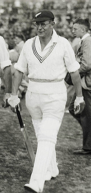 Cricket, 1937, A picture of the New Zealand opening batsman JL (John Lambert) Kerr, seen here walking out to bat at the Scarborough Cricket Festival